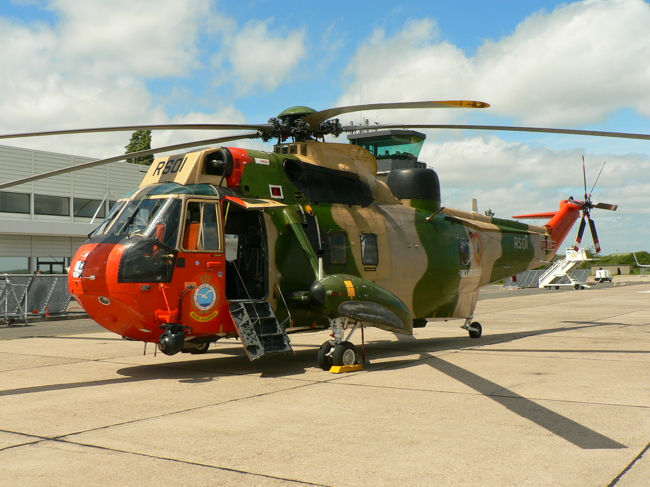 Helicopter Westland Sea King Mk48 RS01 from Belgium Air Force at Tours (France) air meeting.